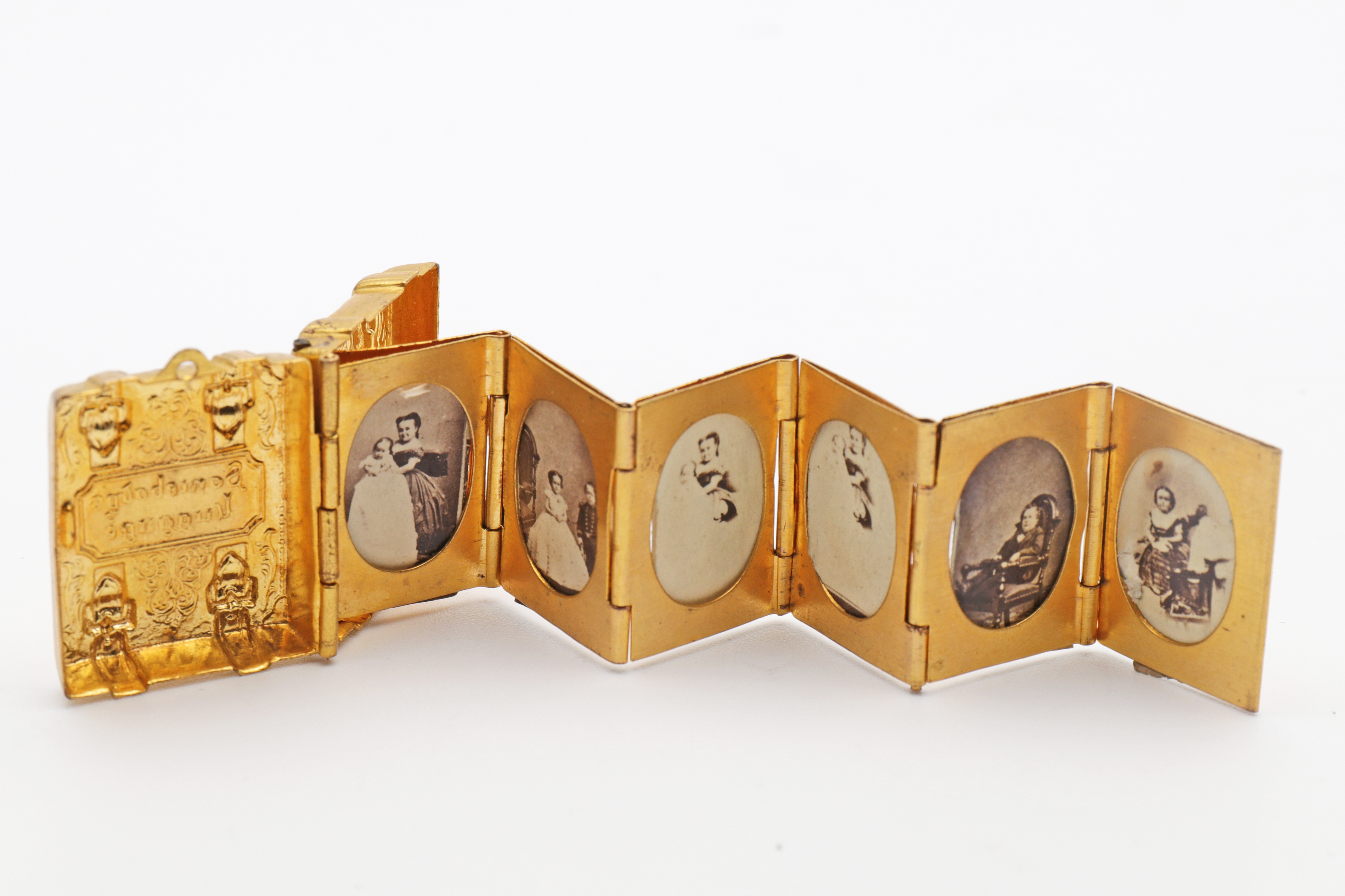 Tom Thumb wedding album. This locket was produced as a commercial souvenir of the lavish wedding in New York at the Grace Episcopal Church on 10 February 1863 of 'General' Tom Thumb and Lavinia Warren.